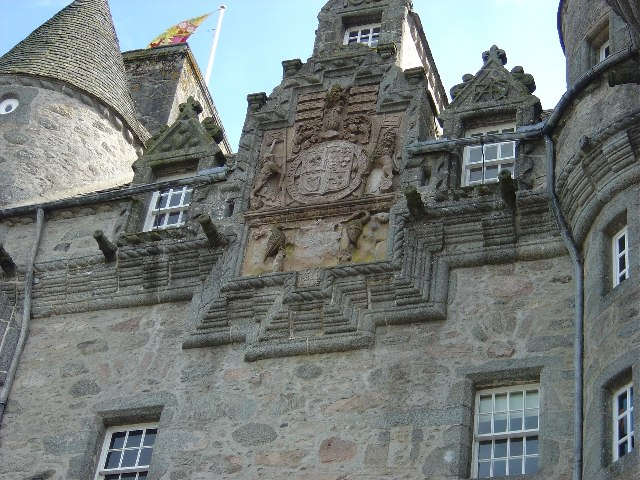 Castle Fraser Coat of Arms. Coat of Arms displayed in the courtyard of Castle Fraser, near Kemnay, Aberdeenshire